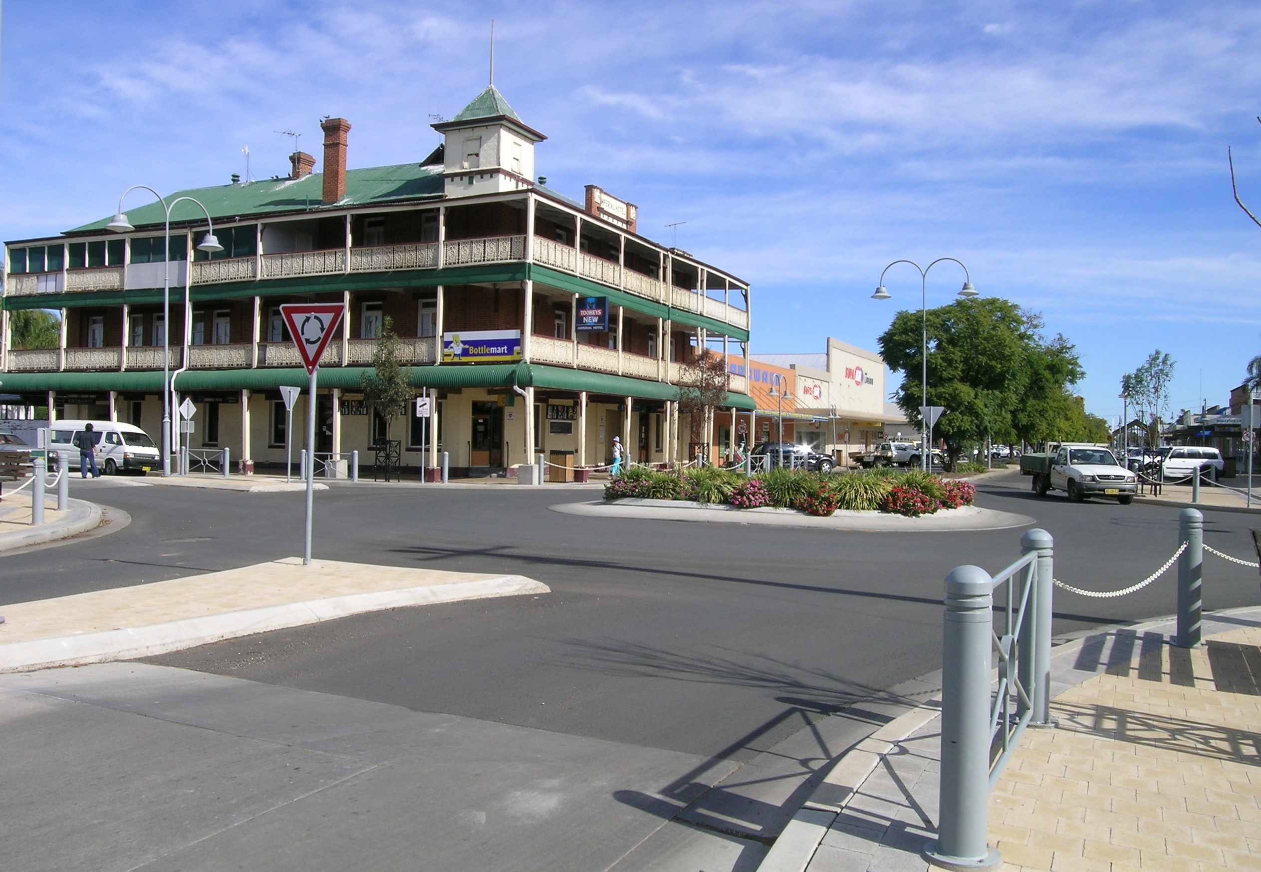 Main street, Wee Waa, NSW, with the Imperial Hotel on the corner